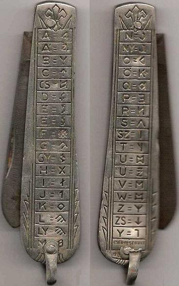 Boy scout knife from 1927 with Szekely-Hungarian Rovas alphabet.